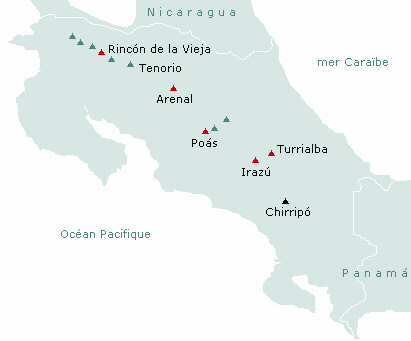 Map: volcanoes of Costa Rica